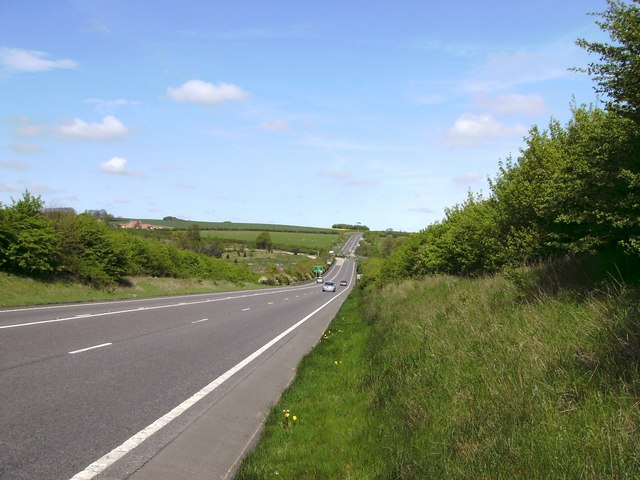 Busy Louth by-pass. This is the reverse view to 386107, the photograph of which was taken from the hill ahead being in square TF3187. Extra care is needed when crossing this very busy road.